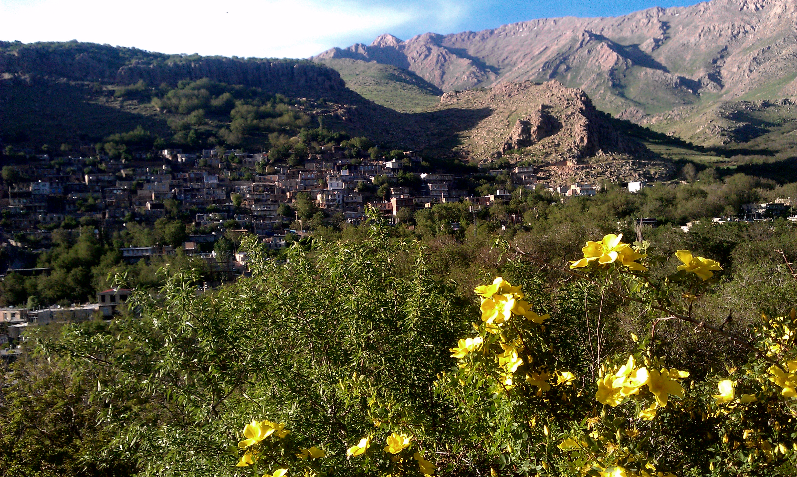 The village of Sword